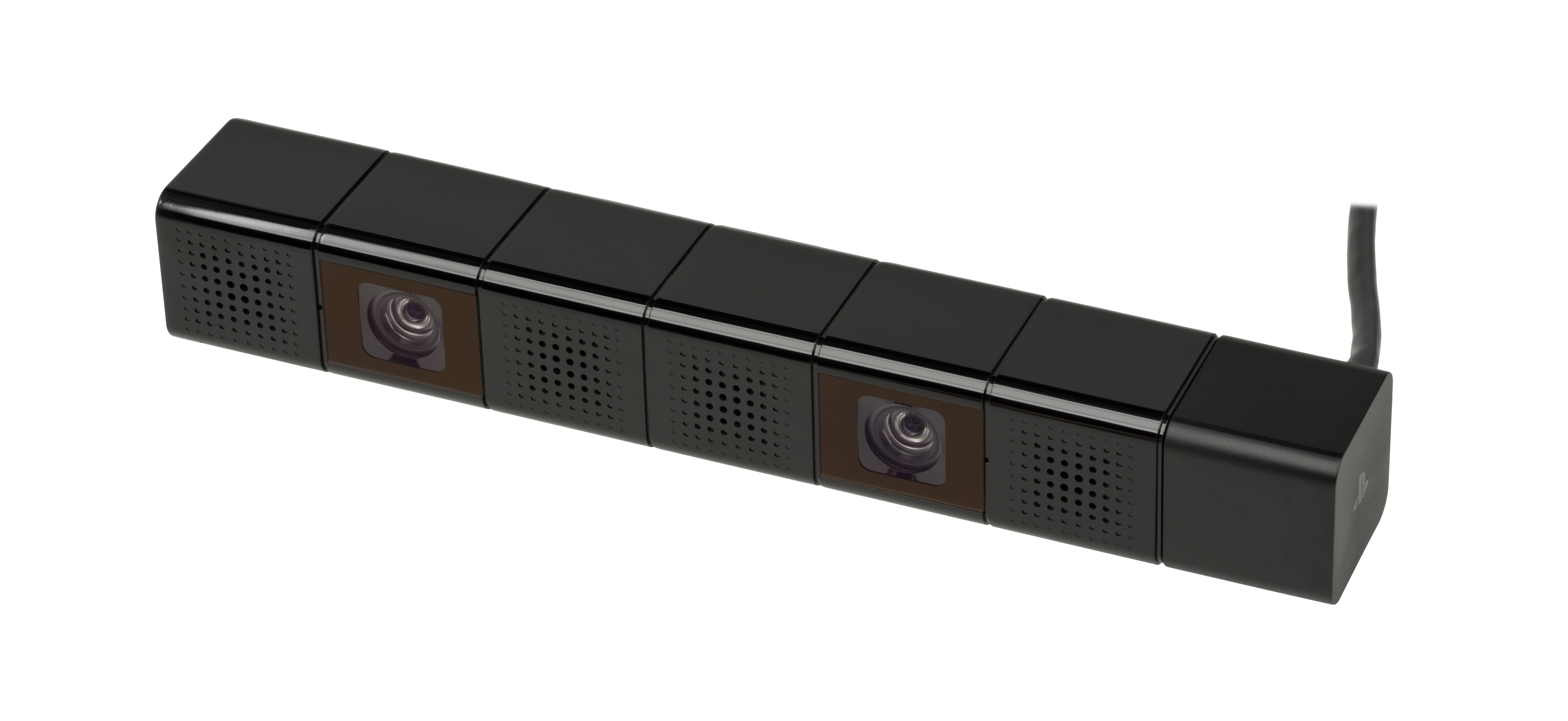 The official PlayStation 4 Camera (first version), that is allows users to record themselves and is also required for use with the PS VR.